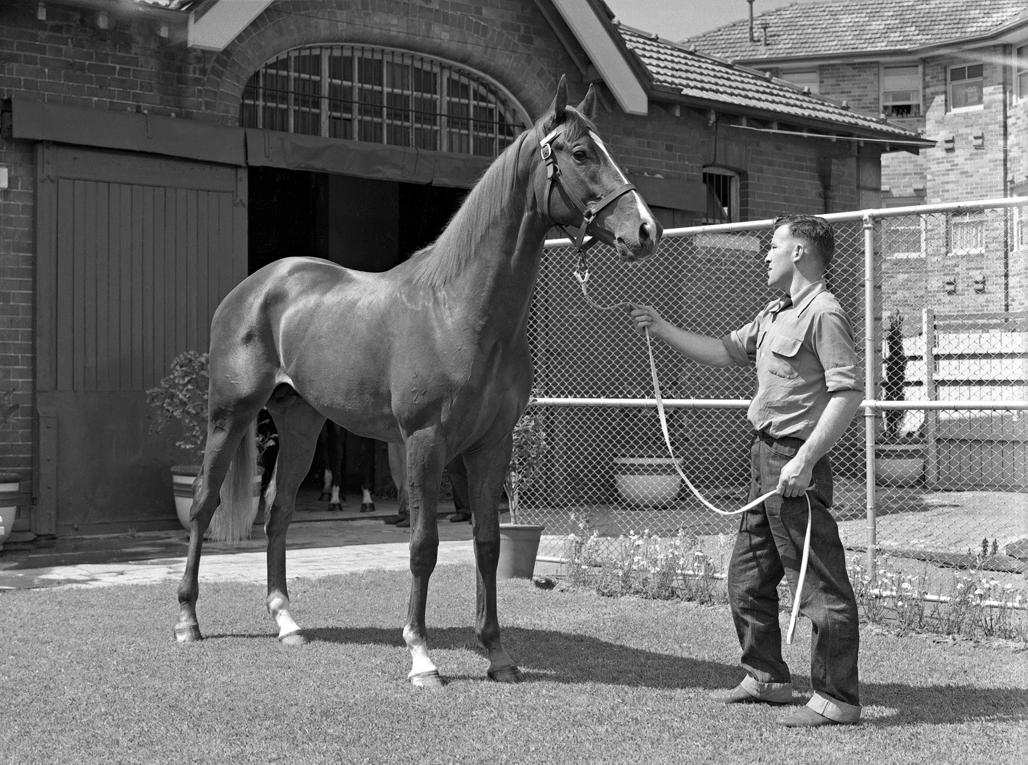 Scan from original negative